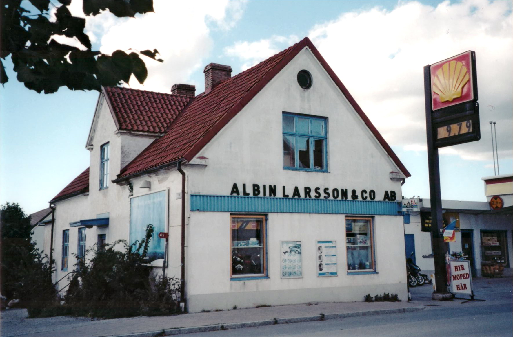 Gas station on Storgatan in Hemse, Gotland, Sweden.